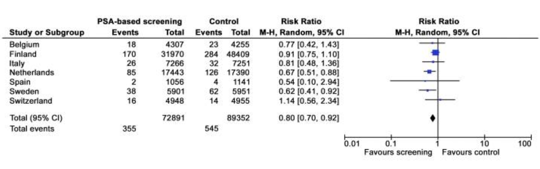 Table of comparison of prostate screening results globally